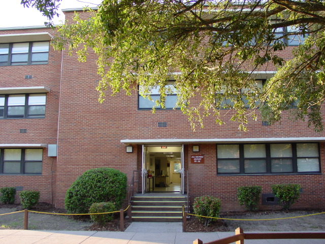 Once you are in the army, you get training, and training for signal regiment, you will likely visit the Fort Gordon Georgia right next to Augusta Georgia. Trees, hot summer, and great umm, school in Fort Gordon will train you to a advanced us army signal soldier of tomorrow.